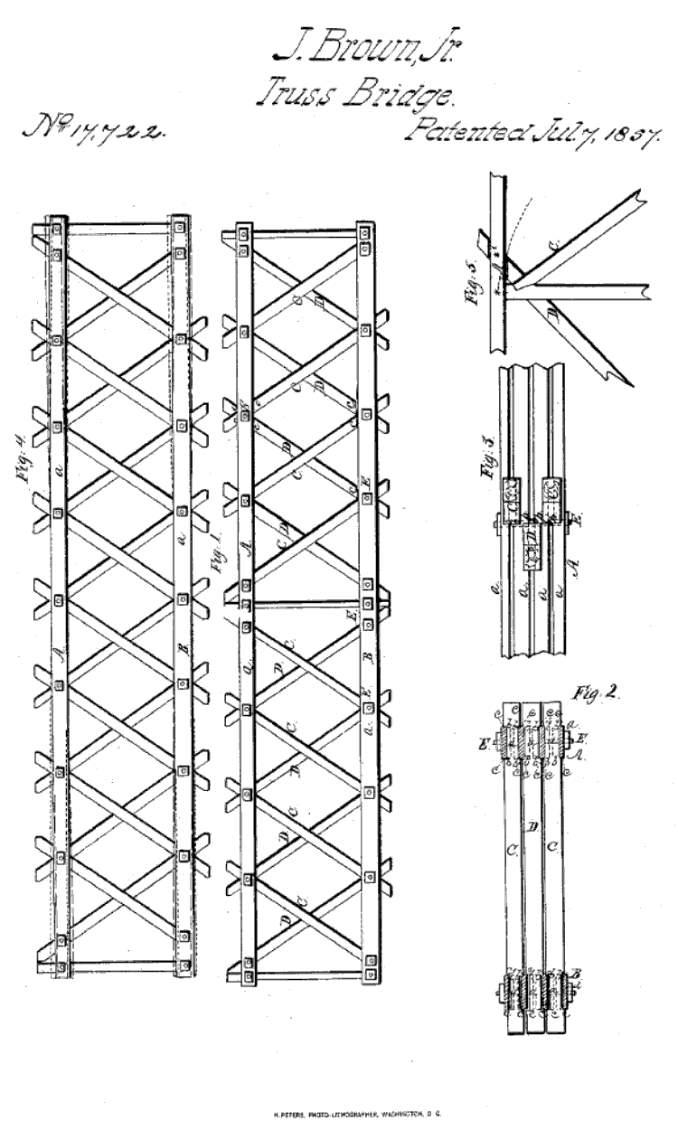 Diagram for US Patent 17,722, the Brown truss, granted to inventor, Josiah Brown Jr., of Buffalo, New York, who patented it July 7, 1857